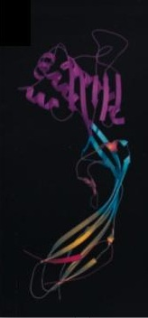 Model of Alpha-toxin